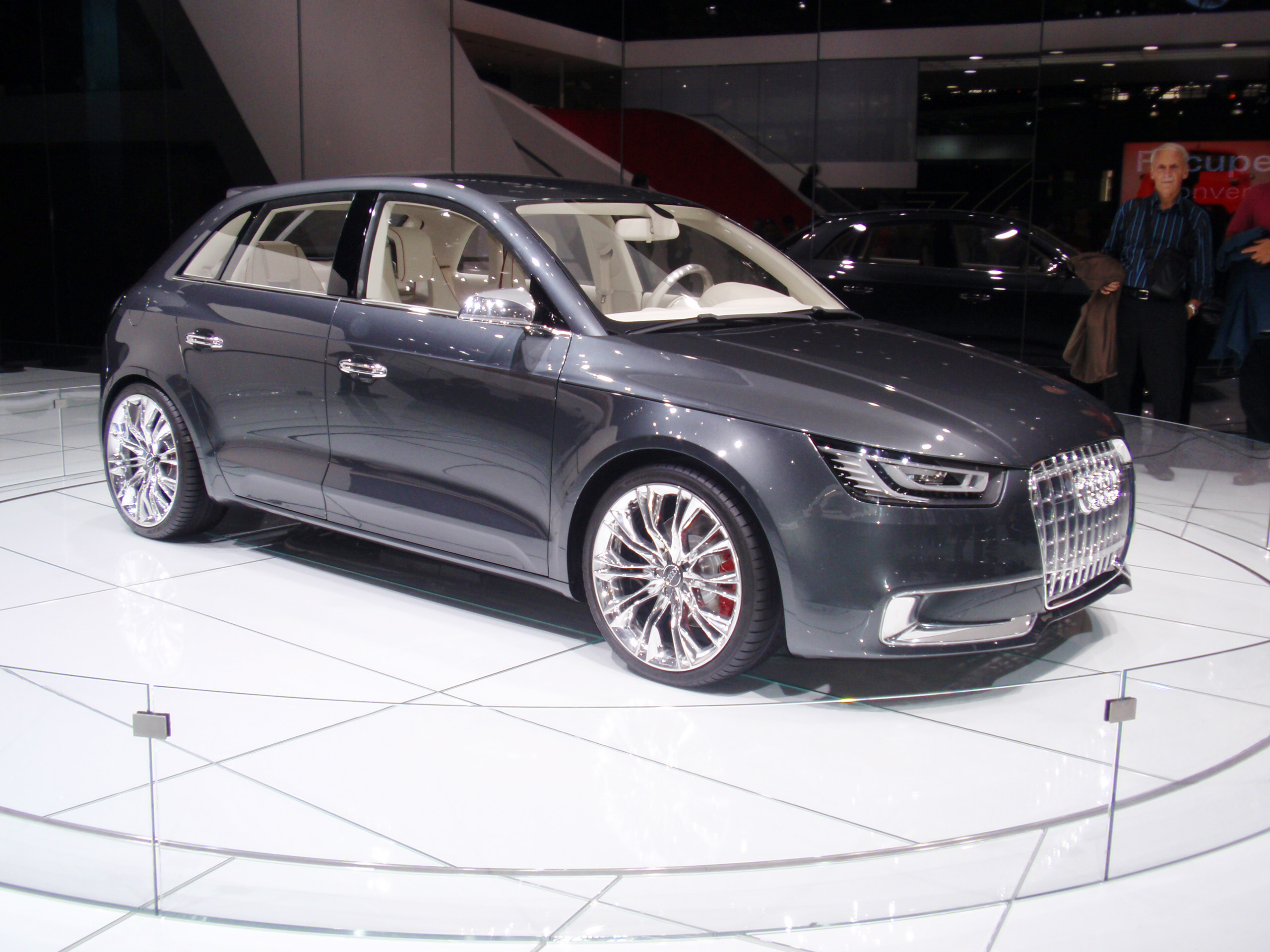 Audi A1 Sportback Concept at the Mondial de l'Automobile 2008 in Paris